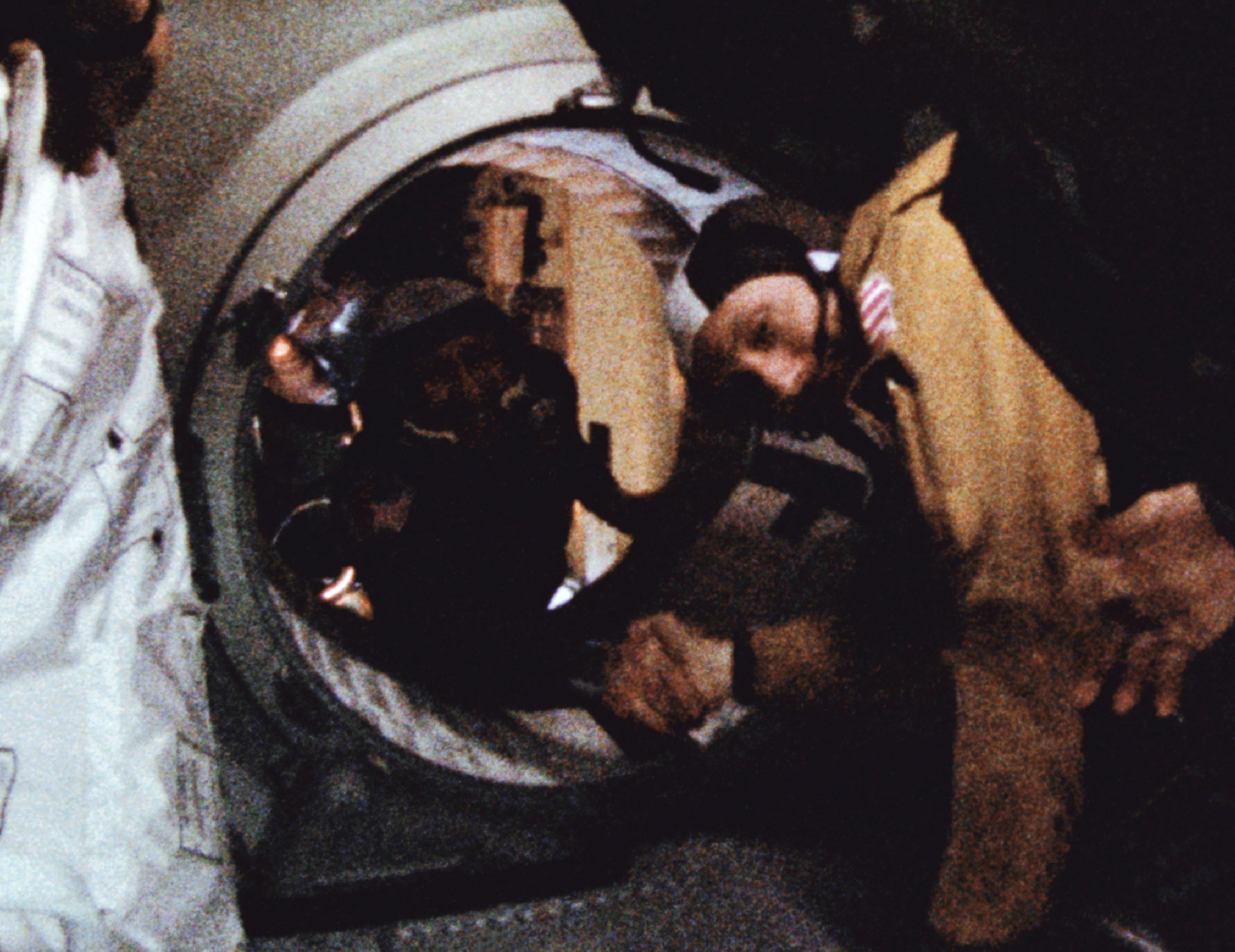 S75-29432 (17 July 1975) --- Astronaut Thomas P. Stafford (in foreground) and cosmonaut Aleksei A. Leonov make their historic handshake in space on July 17, 1975 during the joint U.S.-USSR Apollo Soyuz Test Project (ASTP) docking mission in Earth orbit. This picture was reproduced from a frame of 16mm motion picture film. The American and Soviet spacecraft were joined together in space for approximately 47 hours on July 17th, 18th, 19th, 1975. The Apollo crew consisted of astronauts Thomas P. Stafford, commander; Donald K. "Deke" Slayton, docking module pilot; Vance D. Brand, command module pilot. The Soyuz 19 crew consisted of cosmonauts Aleksei A. Leonov, command pilot; and Valeri N. Kubasov, flight engineer.